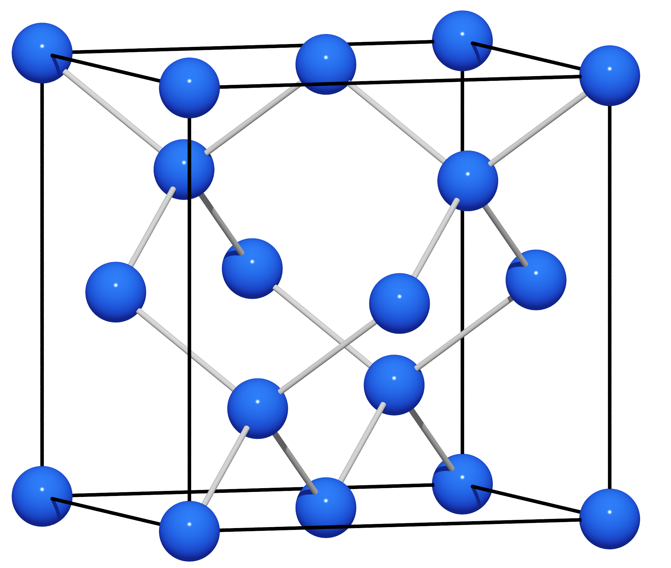 anion sublattice of NaTl